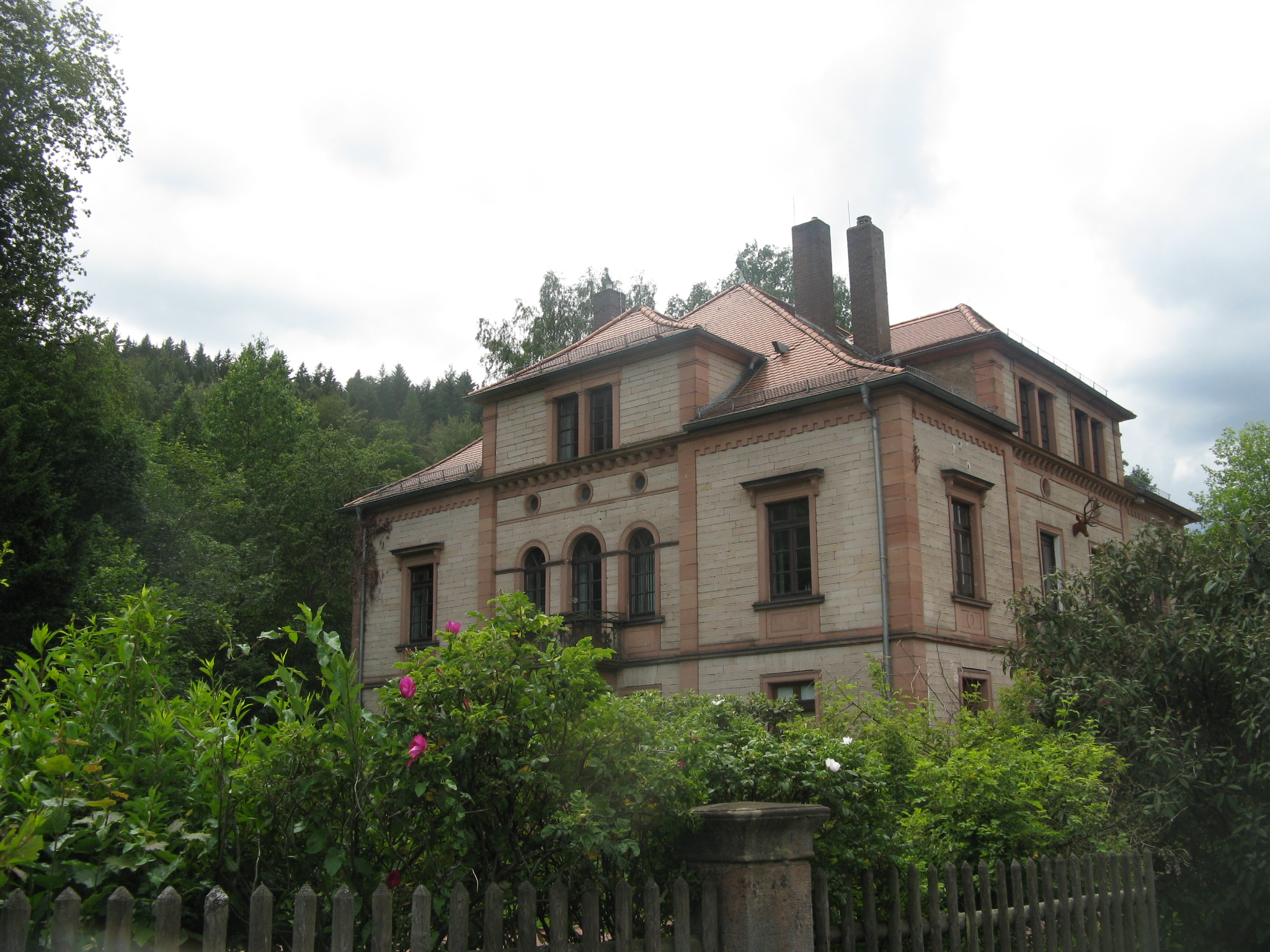 Heigenbrücken (Bavarian Spessart/Germany), residence of quarry owner Daniel Heiter (1854)